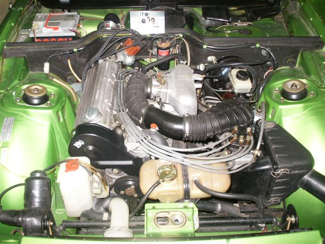 A photo I have taken on a 1976 924 of a friend of mine.